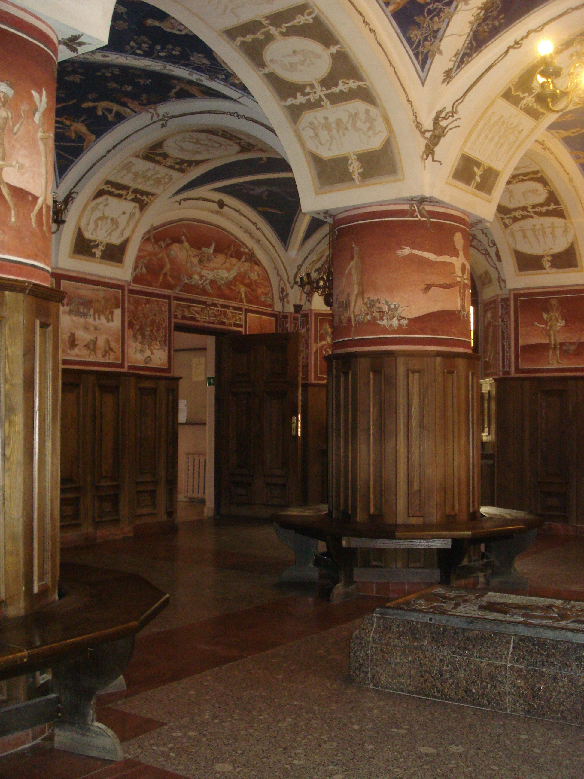 Fresco by Petras Repšys on the second floor of the east building of the Sarbievius Courtyard